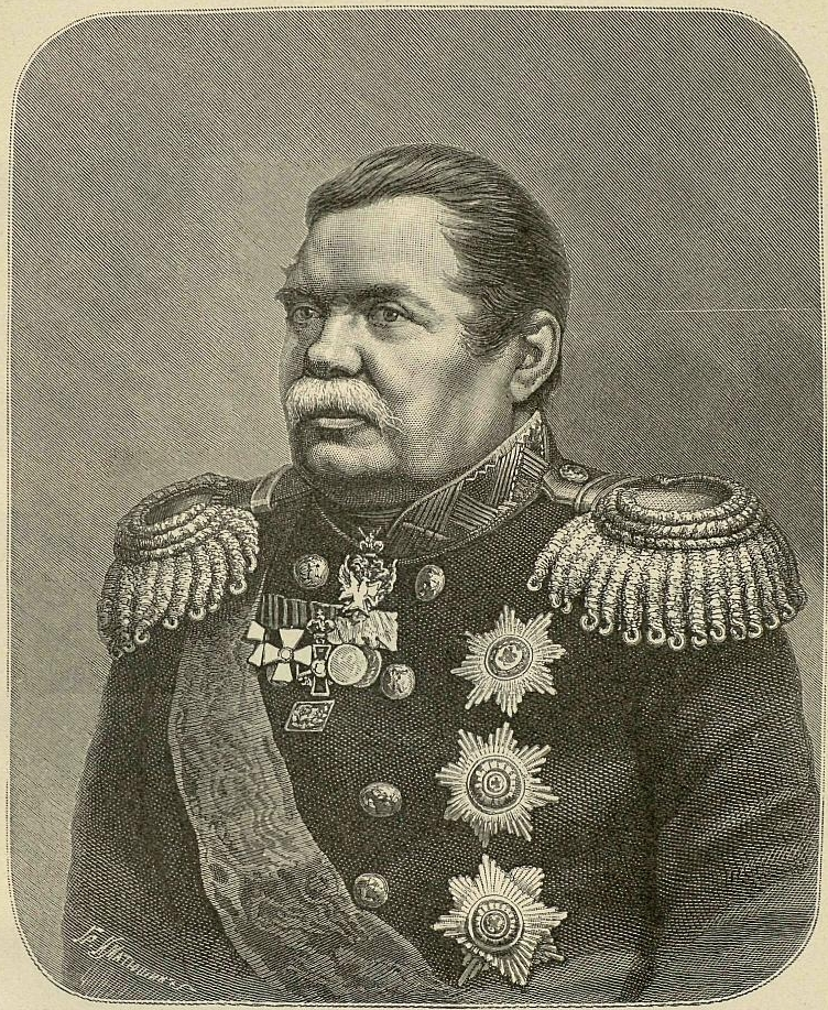 Mikhail Nikolayevich Muravyov-Vilensky